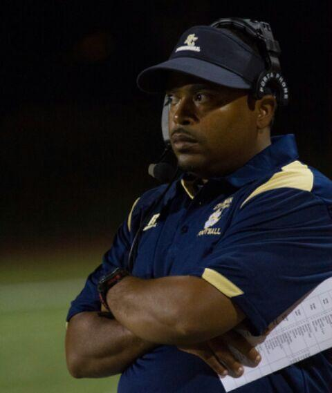 Head Coach at photo at Stillman College